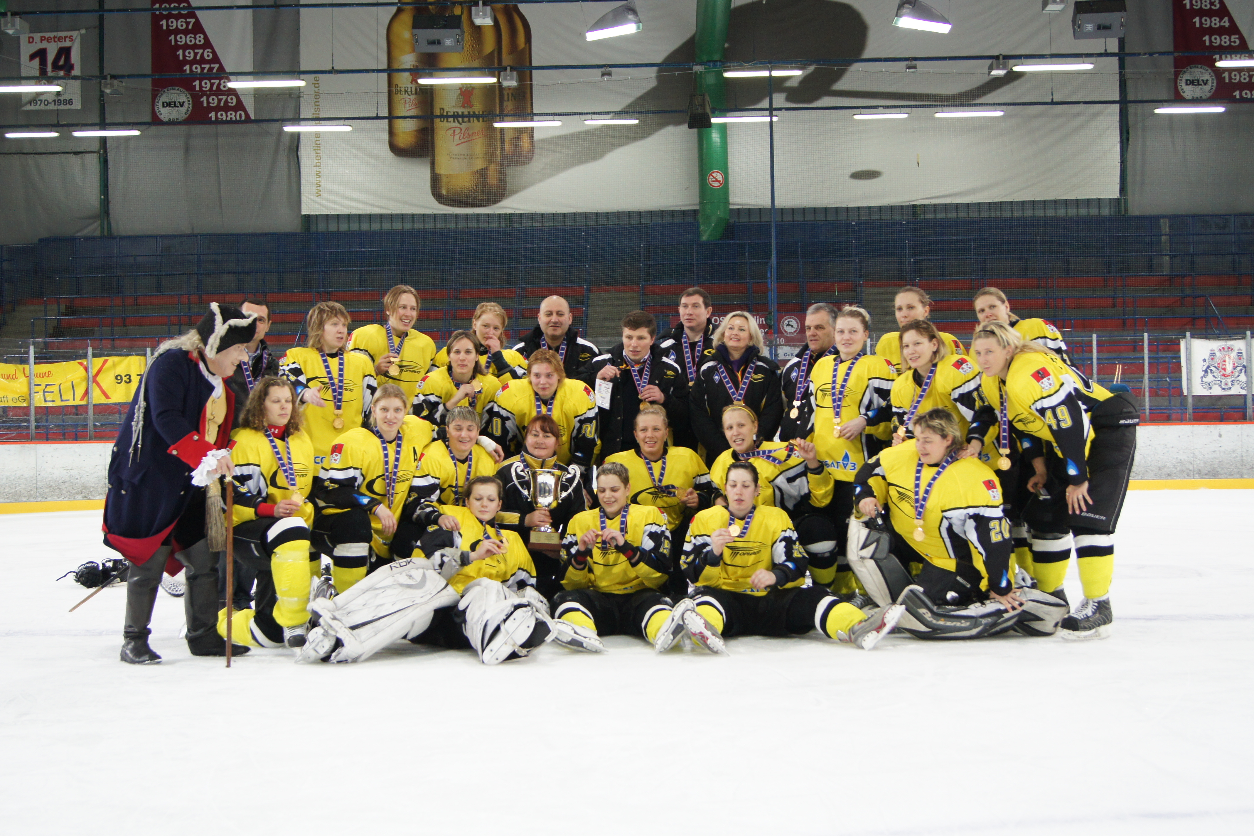 Champion of the 2010 IIHF European Women Champions Cup, Tornado Moscow Region